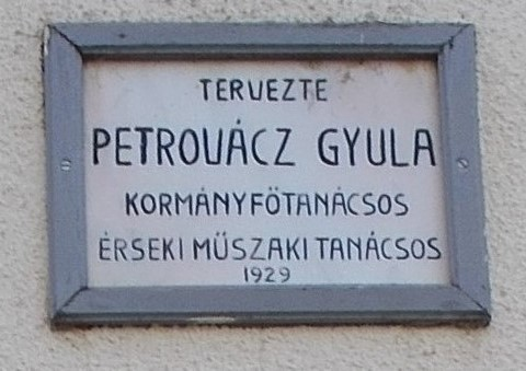 Plaque of Gyula Petrovácz, 1929? on the Hospital 'C' building facade. - Kalocsa, Bács-Kiskun County.